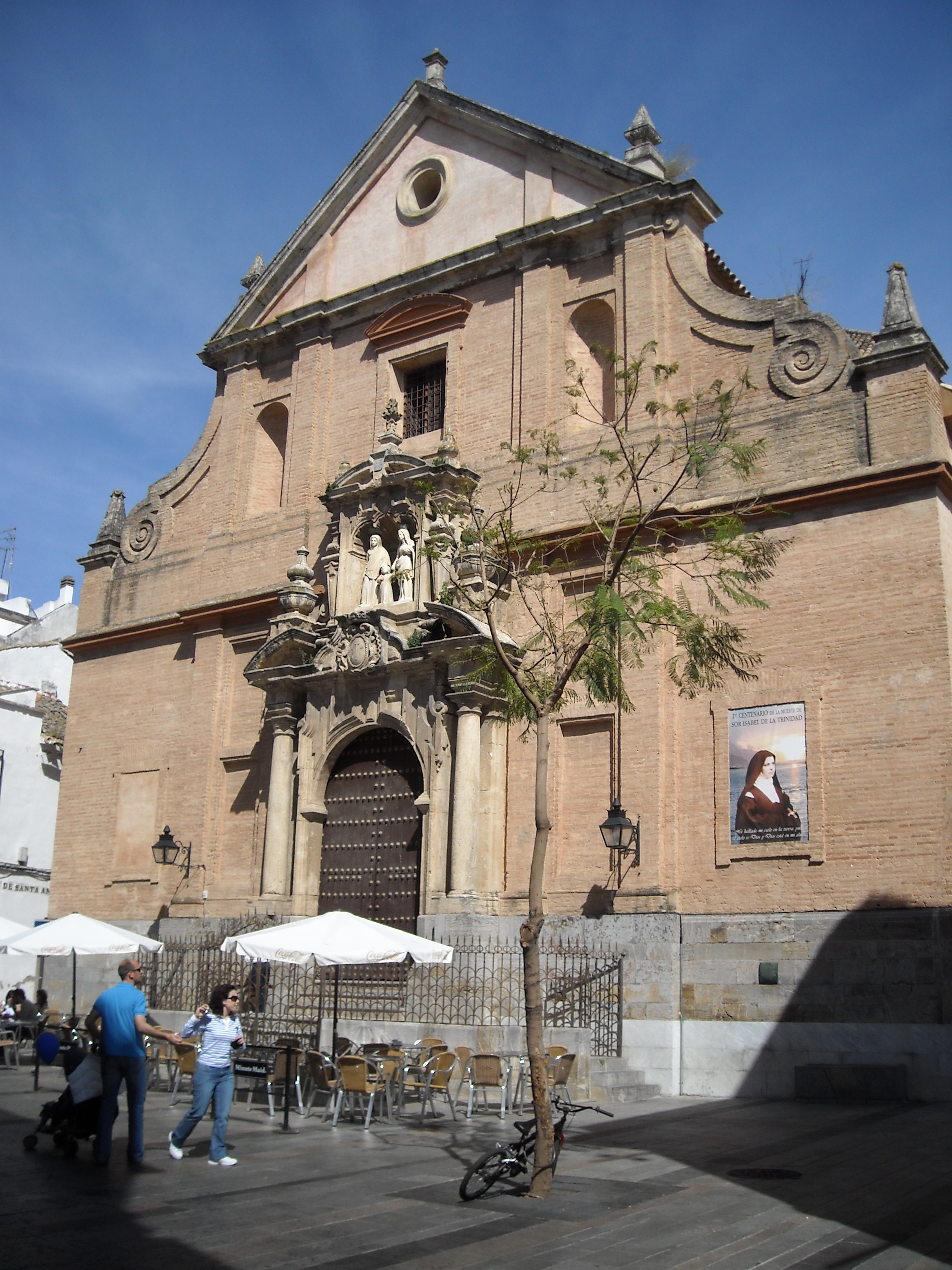 Church of Saint Anne, Córdoba, Spain